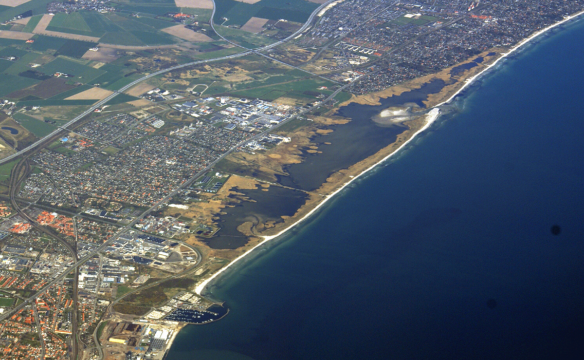 Photo of the beaches north of Køge, Køge Bay, Denmark. Køge Nordstrand, Ølsemagle Revle Beach, Jersie Beach and Solrød Beach